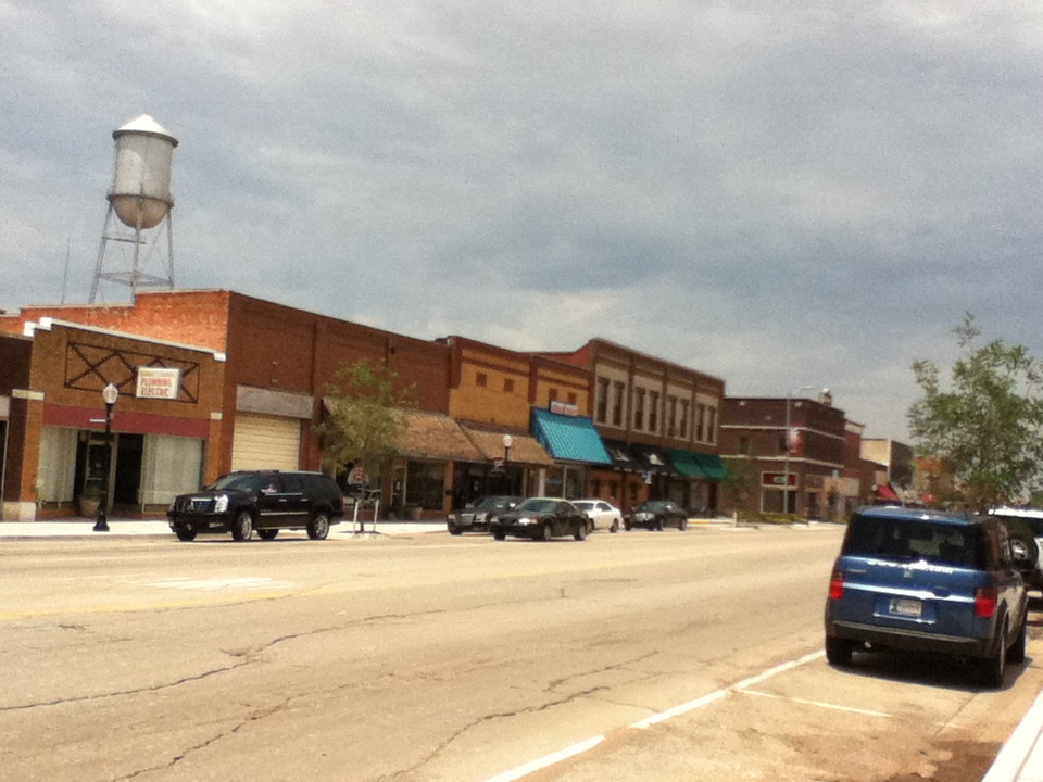 A view of downtown Kingfisher, Oklahoma.